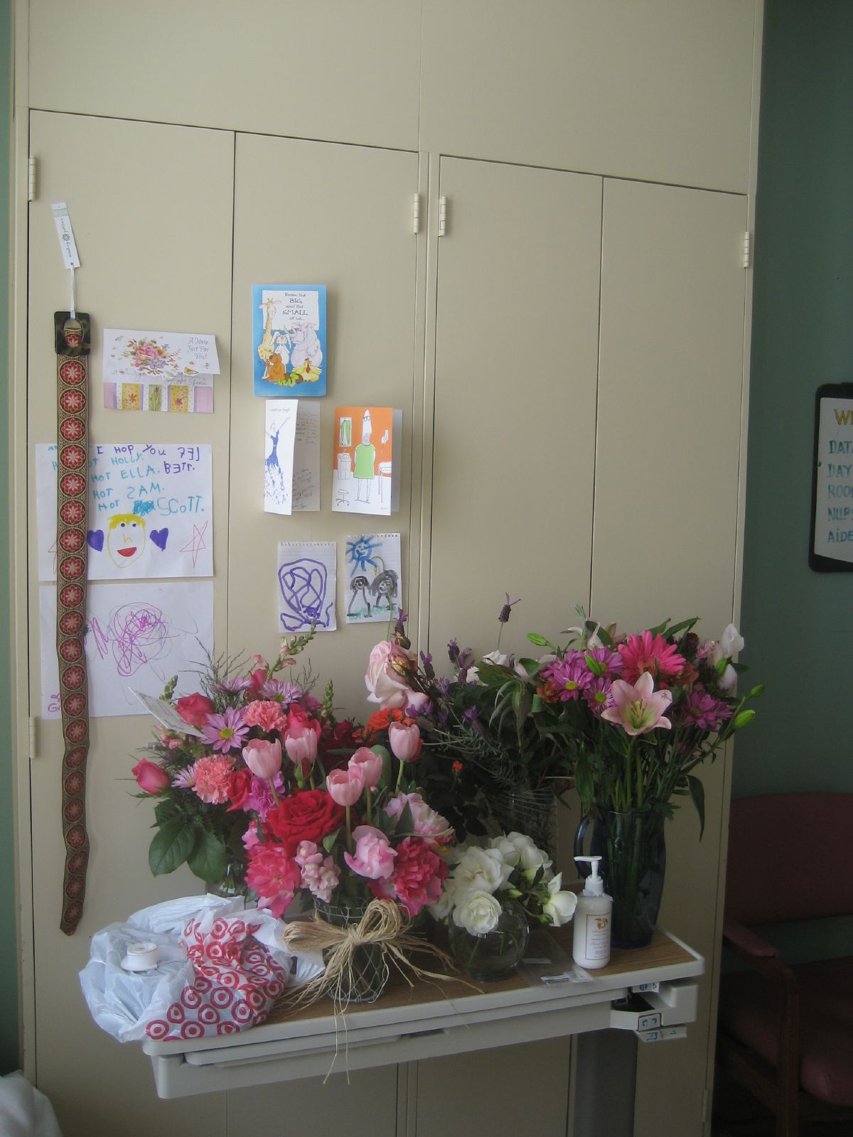 Thank you to all of our friends who sent cards & flowers. Hope for Holly